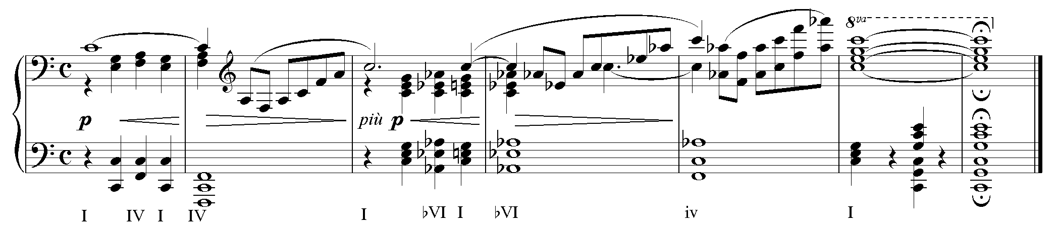 Chromatic mediant, A♭ (♭VI), in Brahms Op.90, II, mm.128-134.